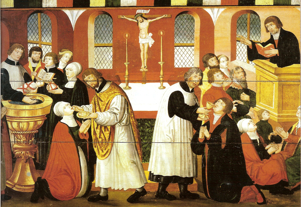 Martin Luther Preaching, from the Altarpiece of the Church of Torslunde, 1561